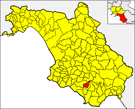 Locator map of the municipality of Cuccaro Vetere (red) within the Province of Salerno